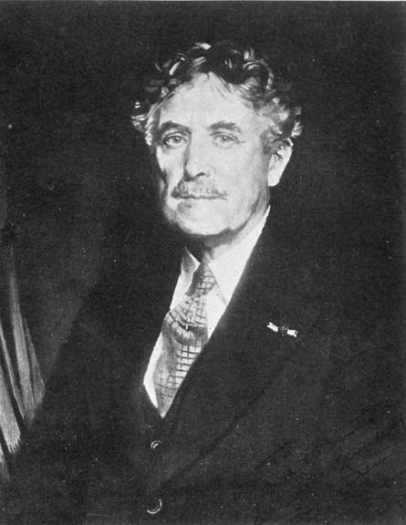 Myron Timothy Herrick (1854-1929), governor of Ohio 1904-1906, ambassador of U.S.A. in France 1912-1914 and 1921-1929